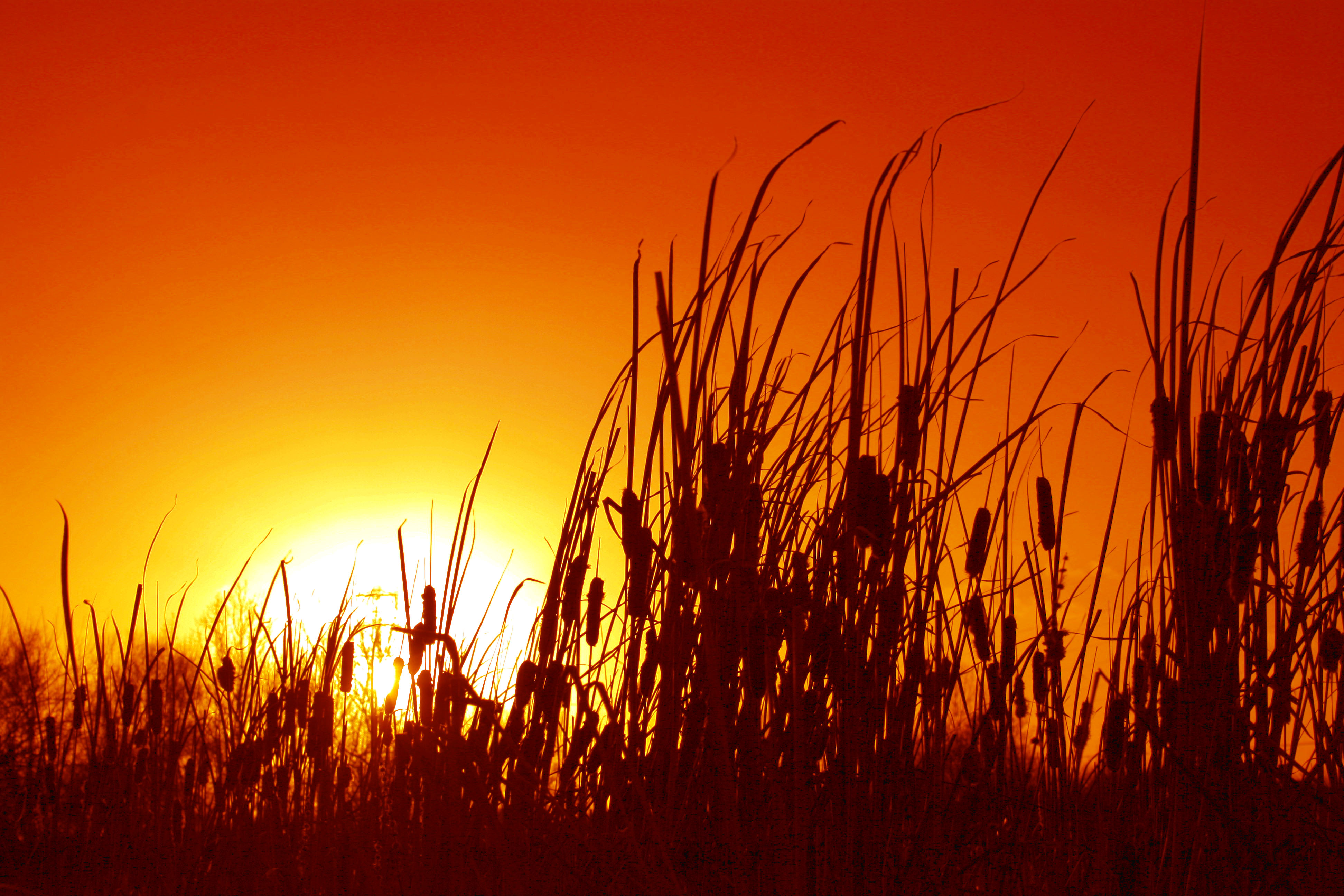 Sunset through Bulrushes Typha latifolia near Colchester, Essex